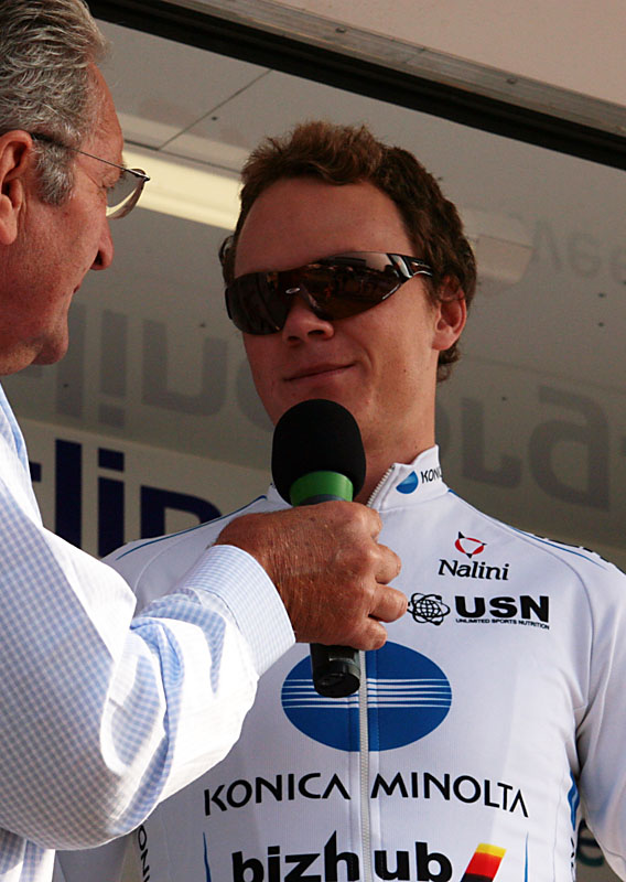 Hugh Porter interviews Chris Froome at the stage 3 sign-on during the 2007 Tour of Britain. Then he was starting to attract interest despite being a new name and riding for a modest South Africian team. But the attention become many times greater in the 2012 and 2013 Tours - of France. This year he hopes to wear race number 1 in the 2014 Tour de France starting from Leeds.